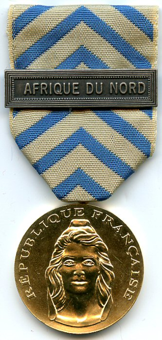 Obverse of the Medal of the Nation's Recognition (France)